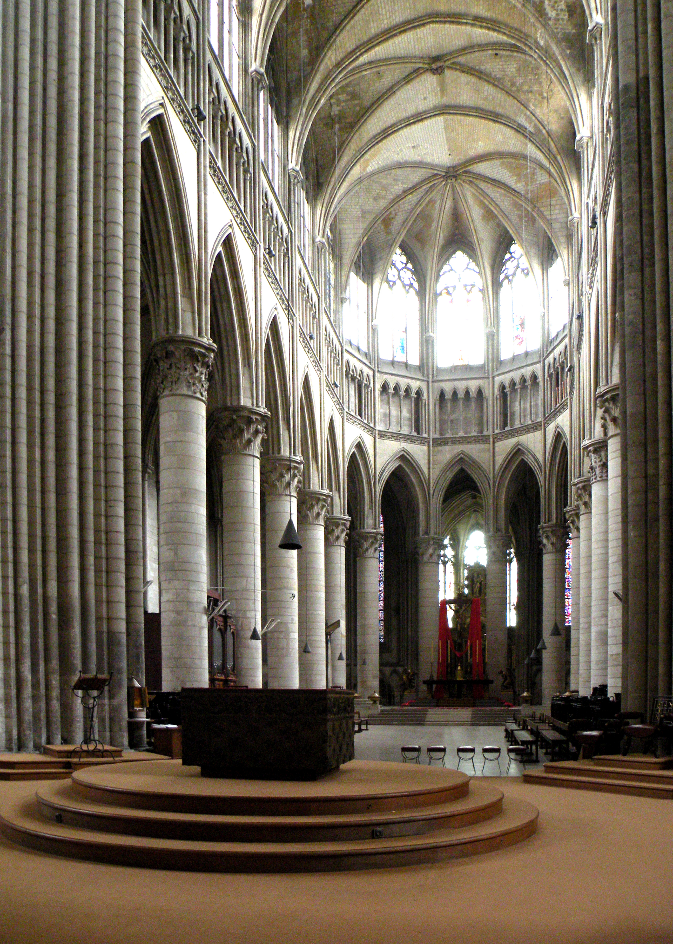 Chor of Notre-Dame cathedral (Rouen)